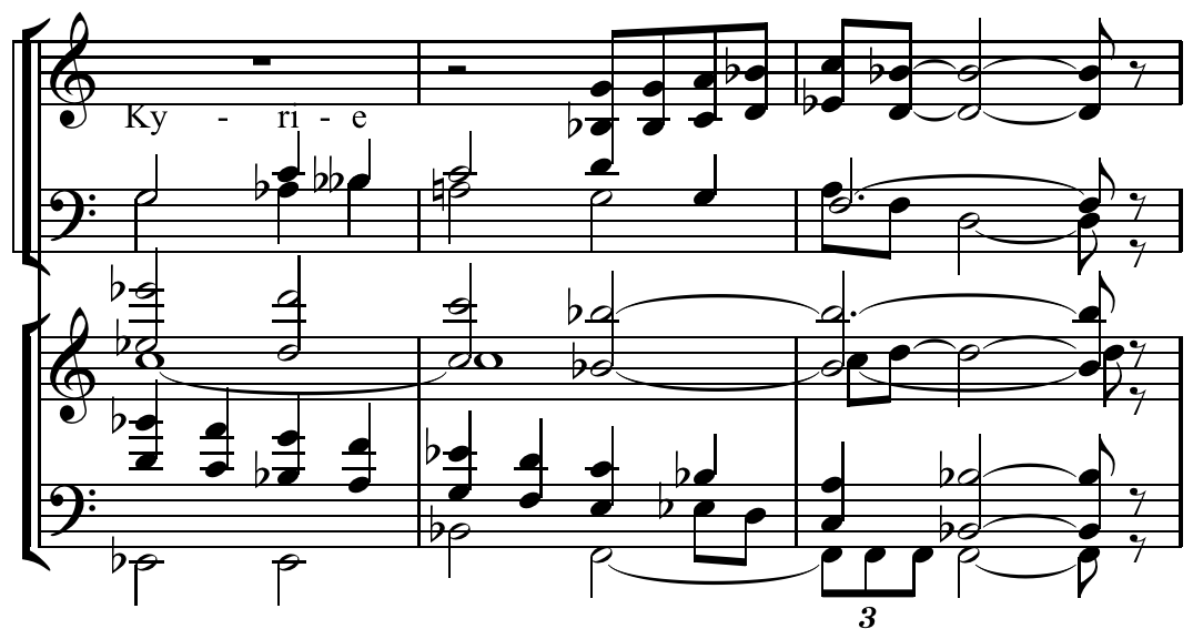 Polyvalency in Stravinsky's Mass (Leeuw 2006, 88).